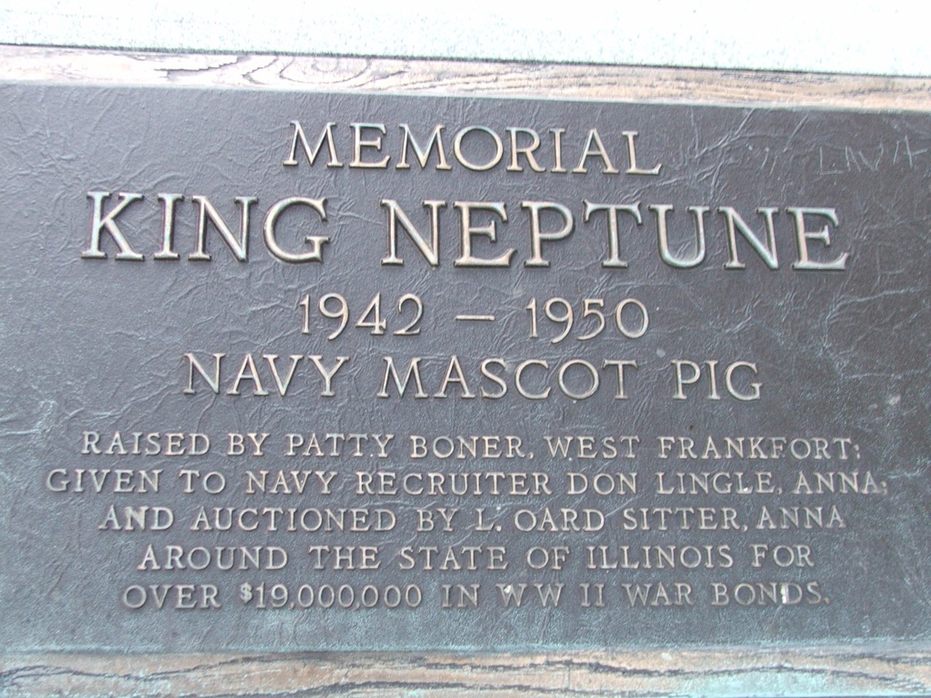 Memorial dedicated to pig)|King Neptune at a rest stop in Mount Pleasant, Illinois. Photo taken on June 18, 2005.KING NEPTUNE